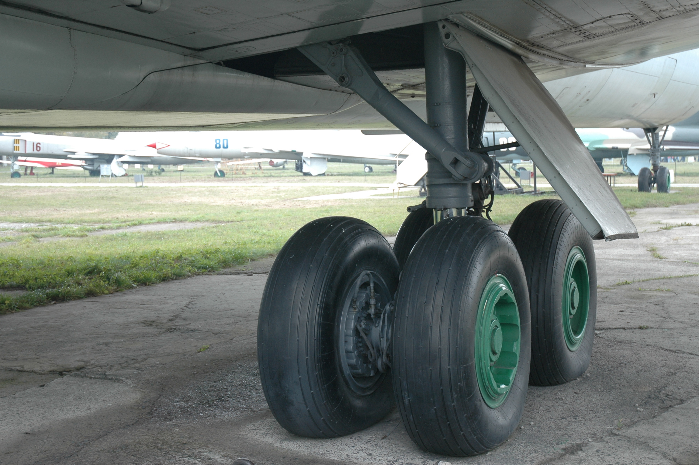 Ilyushin Il-62 (Ukrainian State Aviation Museum, Kyiv)